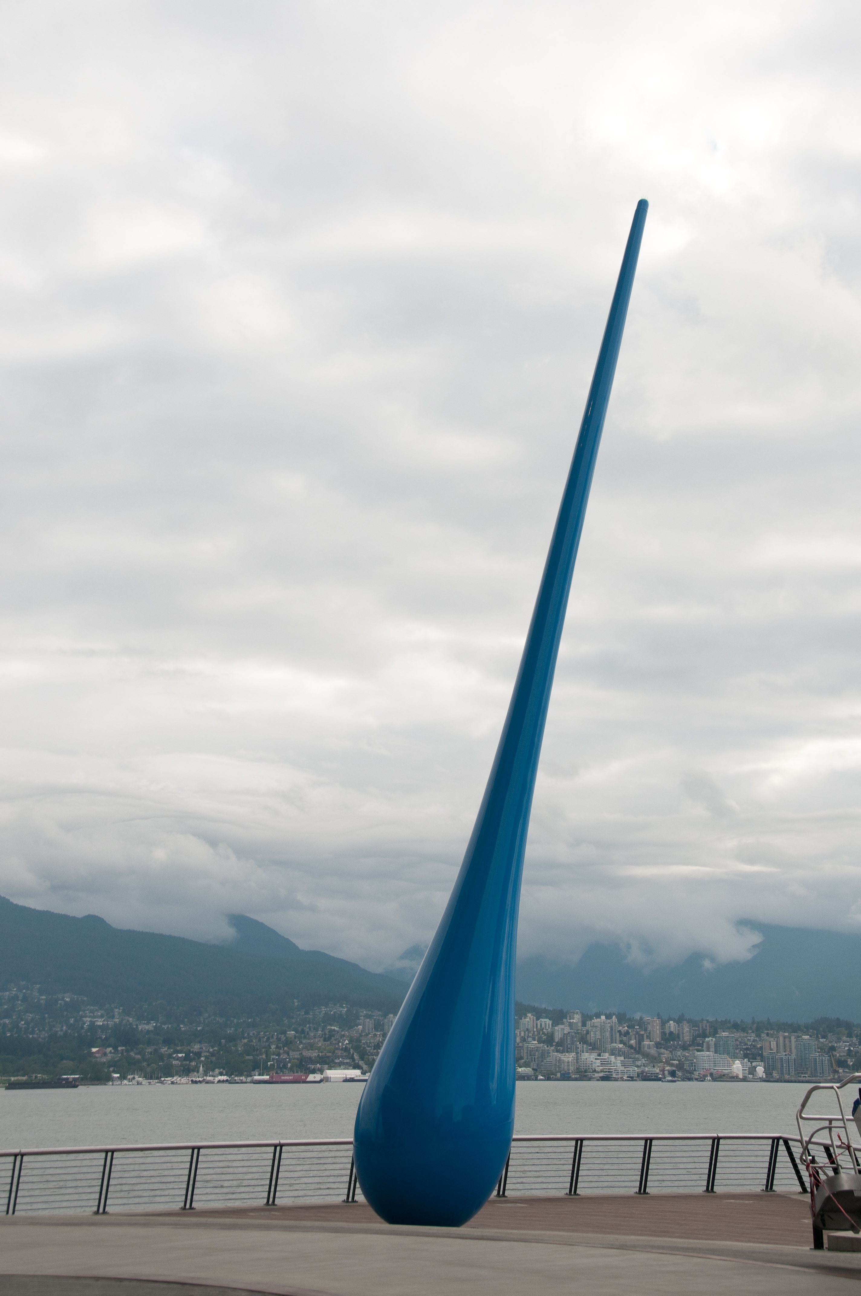 The Drop, a statue of a raindrop by Inges Idee at the Vancouver Convention Centre